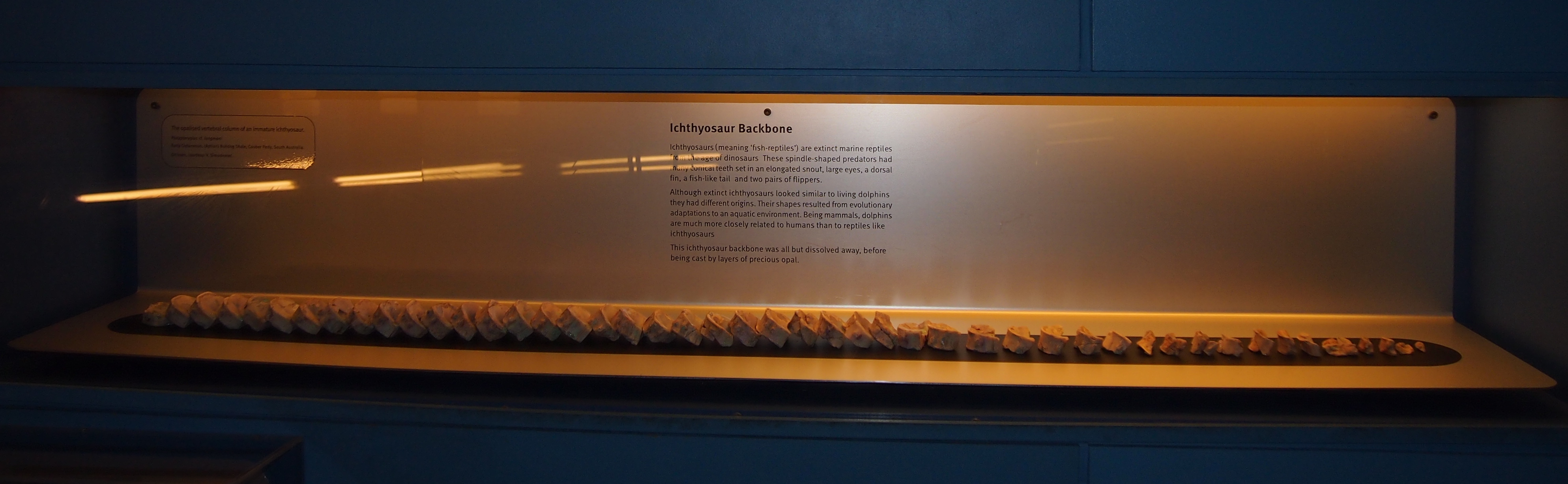 Precious opal replacing Ichthyosaur backbone; display specimen, South Australian Museum. Original filename = P2211104.JPG